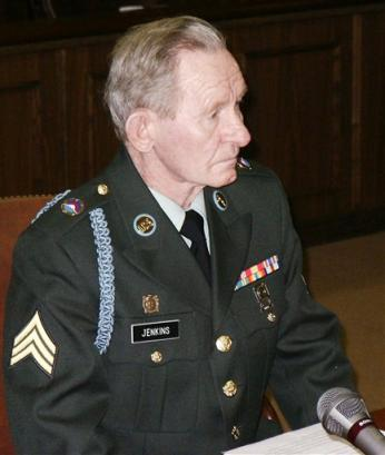 Charles Jenkins in military uniform at the time of his court martial in 2004.